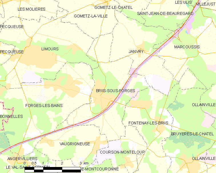 Map of French municipality Briis-sous-Forges